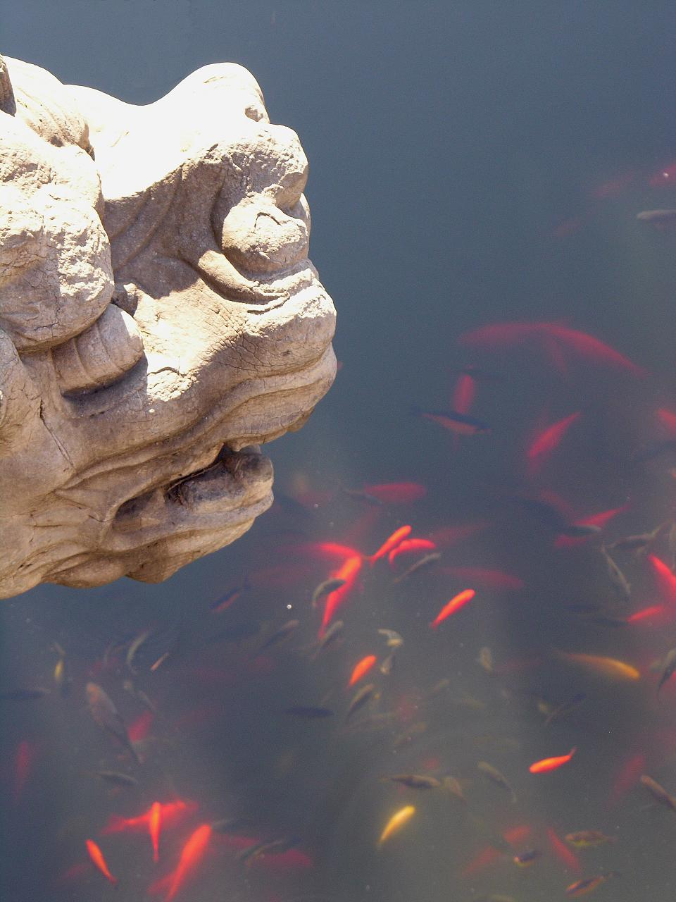 A fish pond in the gardens.浮碧亭下的水池边的石蟠首出水口